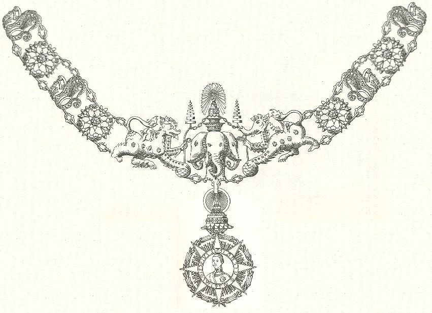 Collar of the Order of Chula Chom Klao, Thailand